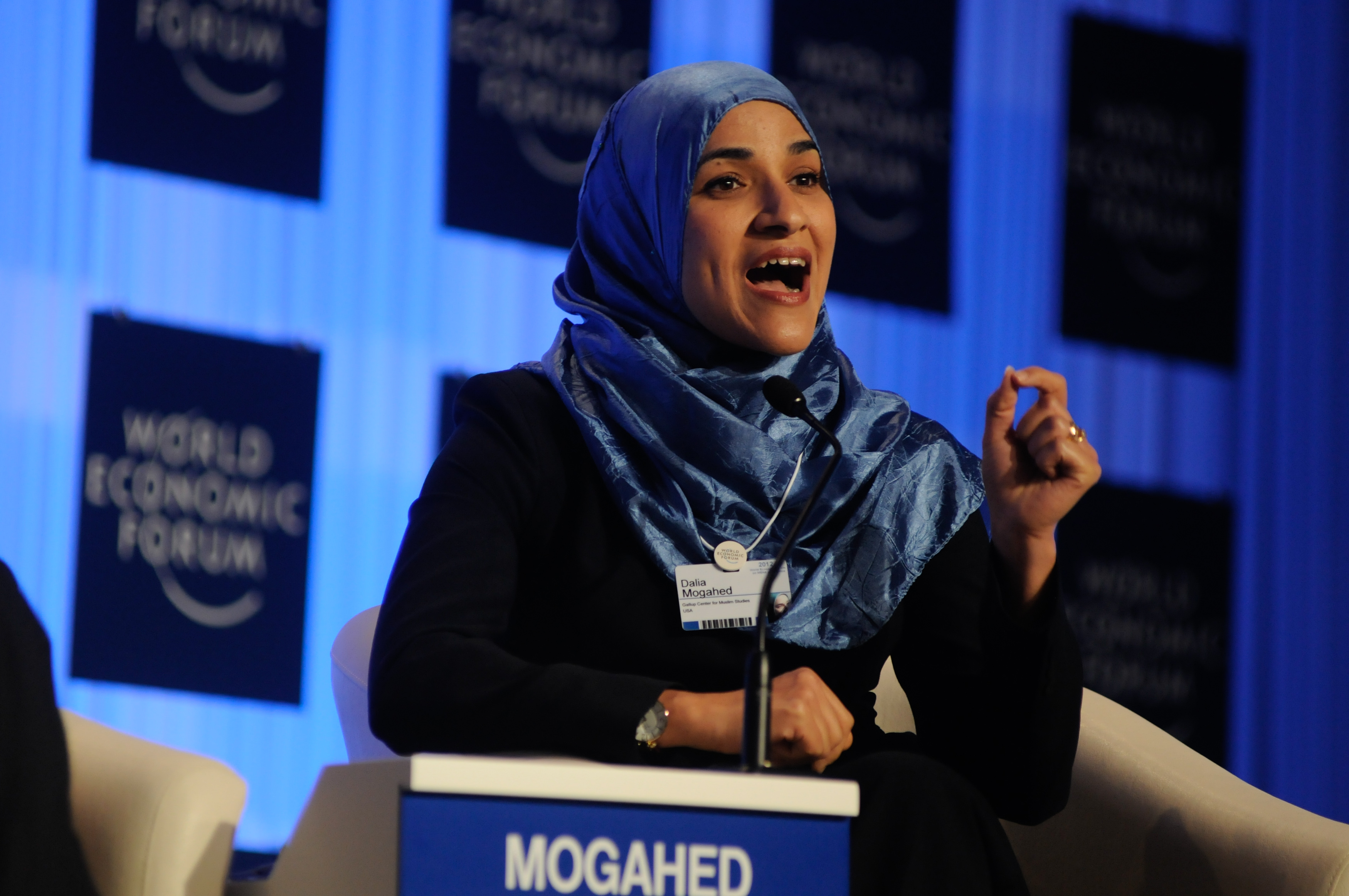 Dalia Mogahed, Director, Gallup Center for Muslim Studies, USA; Young Global Leader; Global Agenda Council on the Arab World at the World Economic Forum on the Middle East, North Africa and Eurasia in Istanbul, 4-6 June 2012.